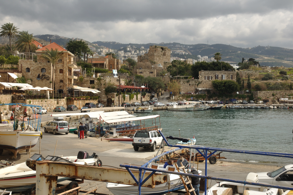 Biblos